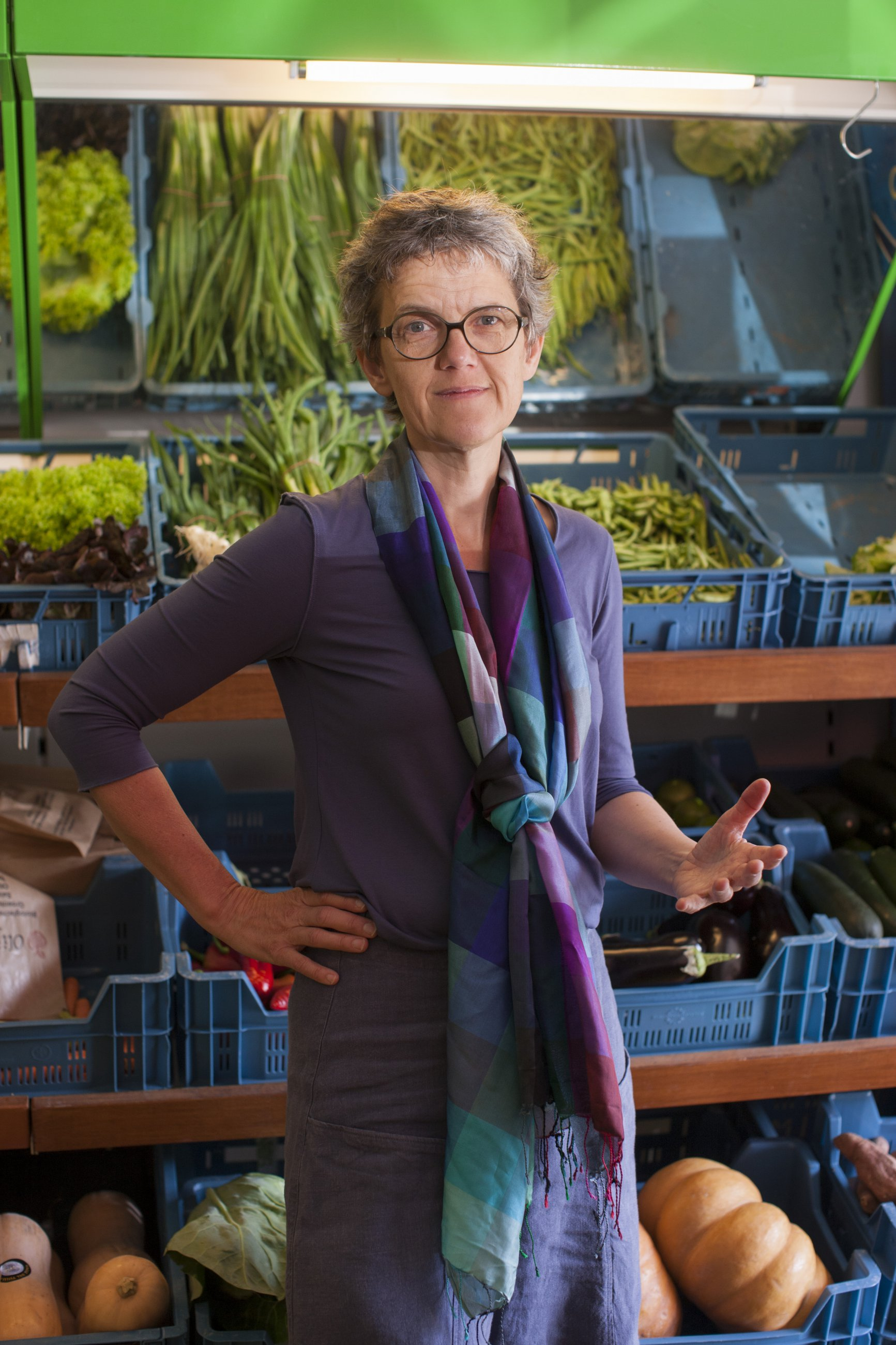 Dutch antropologist Annemarie Mol (2012)